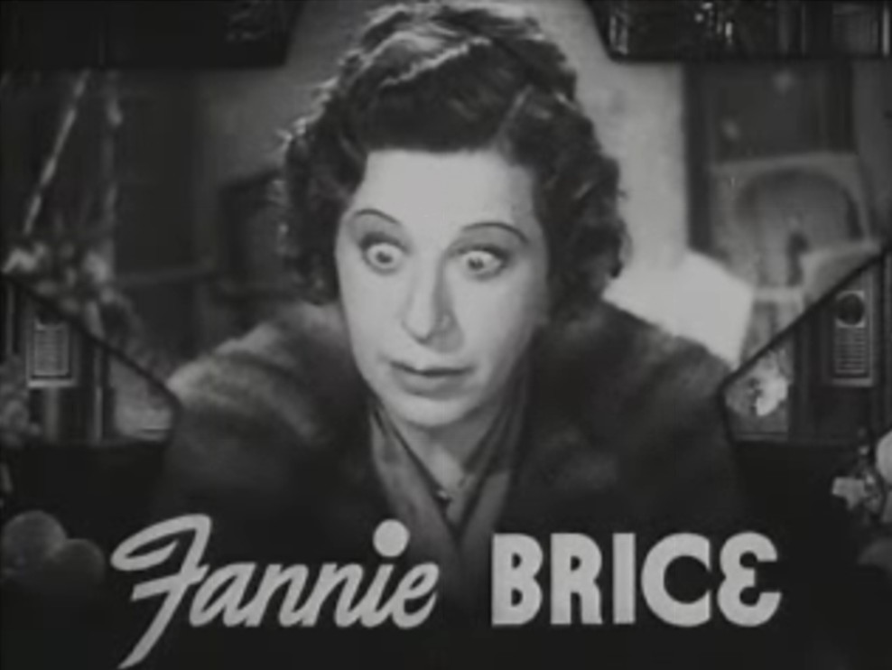 Cropped screenshot of Fanny Brice from the trailer for The Great Ziegfeld